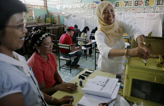 photograph of Basilan Governor Jum Akbar casting her vote in the May 2007 elections